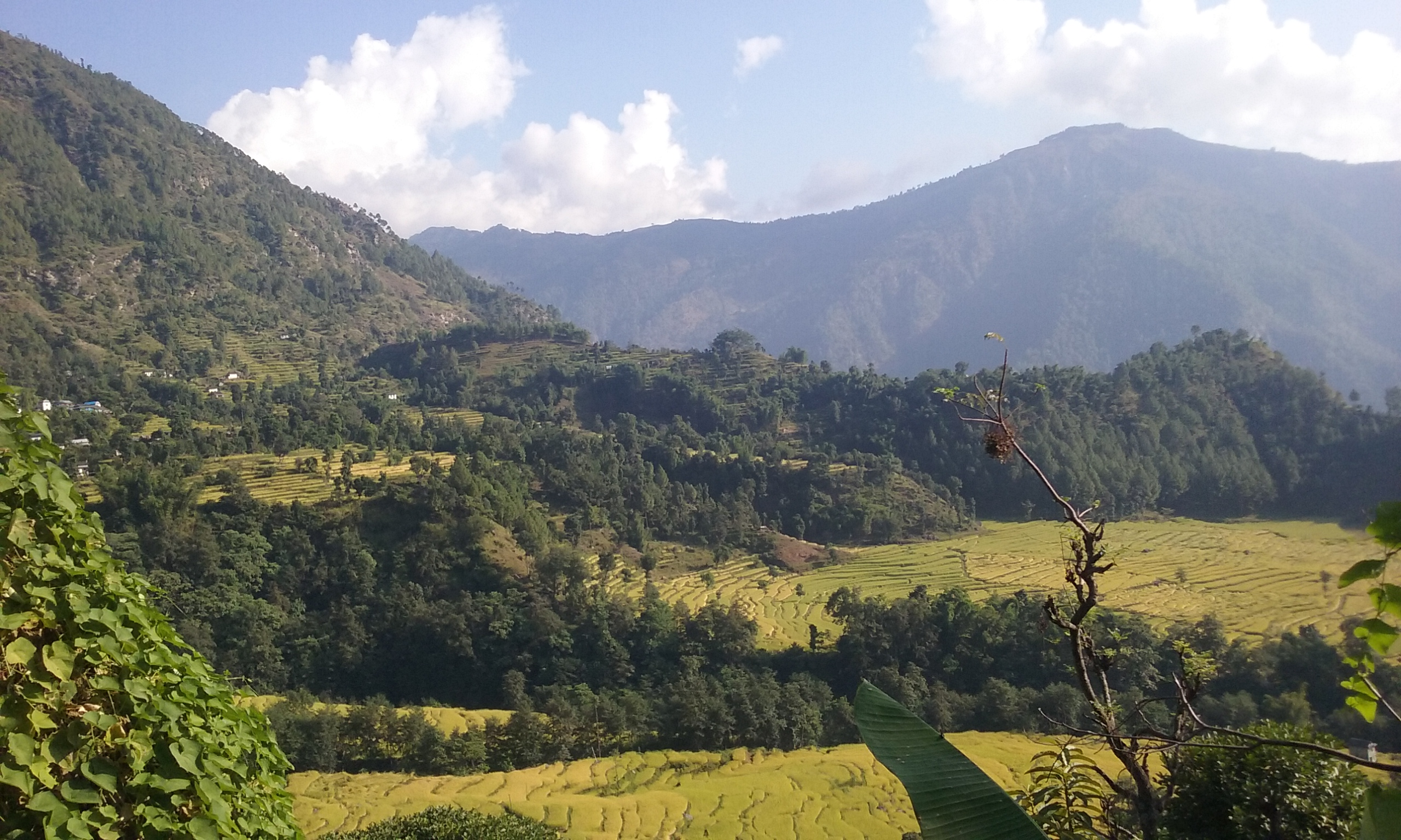 Solukhumbu district, Salyan Village under jurisdication of Necha Salyan Gaunpalika (rural municipality). The picture portrays the yellow-green paddy field of Dyamde and Salyan Fedi village and in the month of October (Kartik in Bikram Samvat calender)